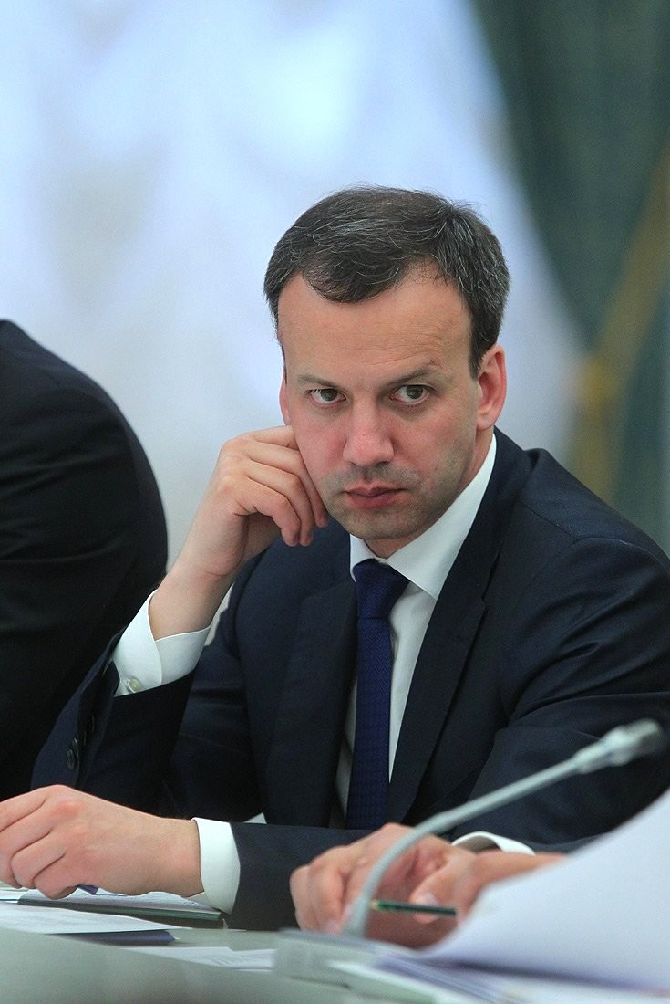 At a meeting on the implementation of the Presidential Decree of May 7 2012 year. Deputy Prime Minister Arkady Dvorkovich.